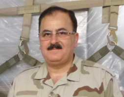 This is a picture of Brigadier General Salim Idris